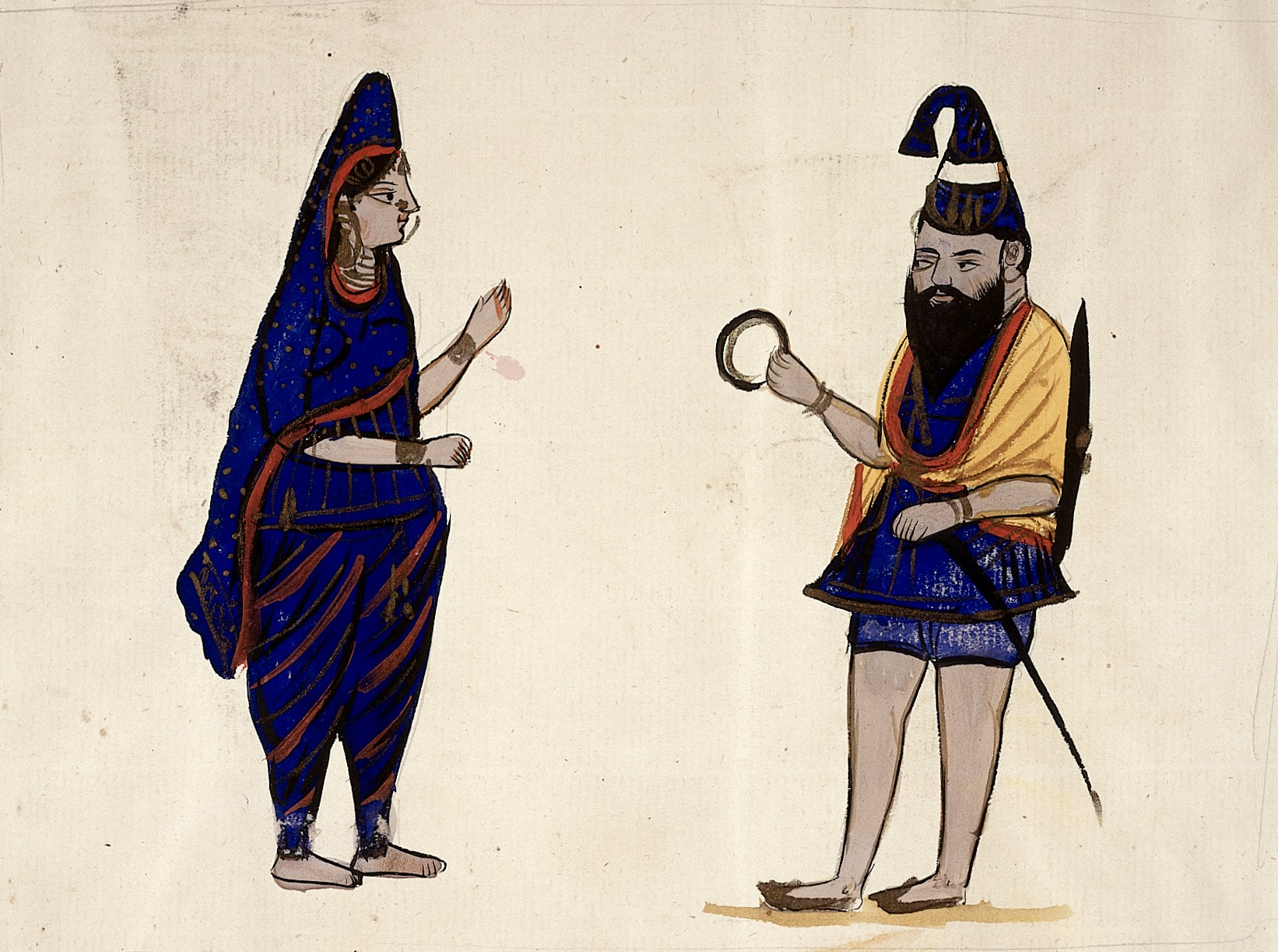 Sikh warrior and wife. Iconographic Collections